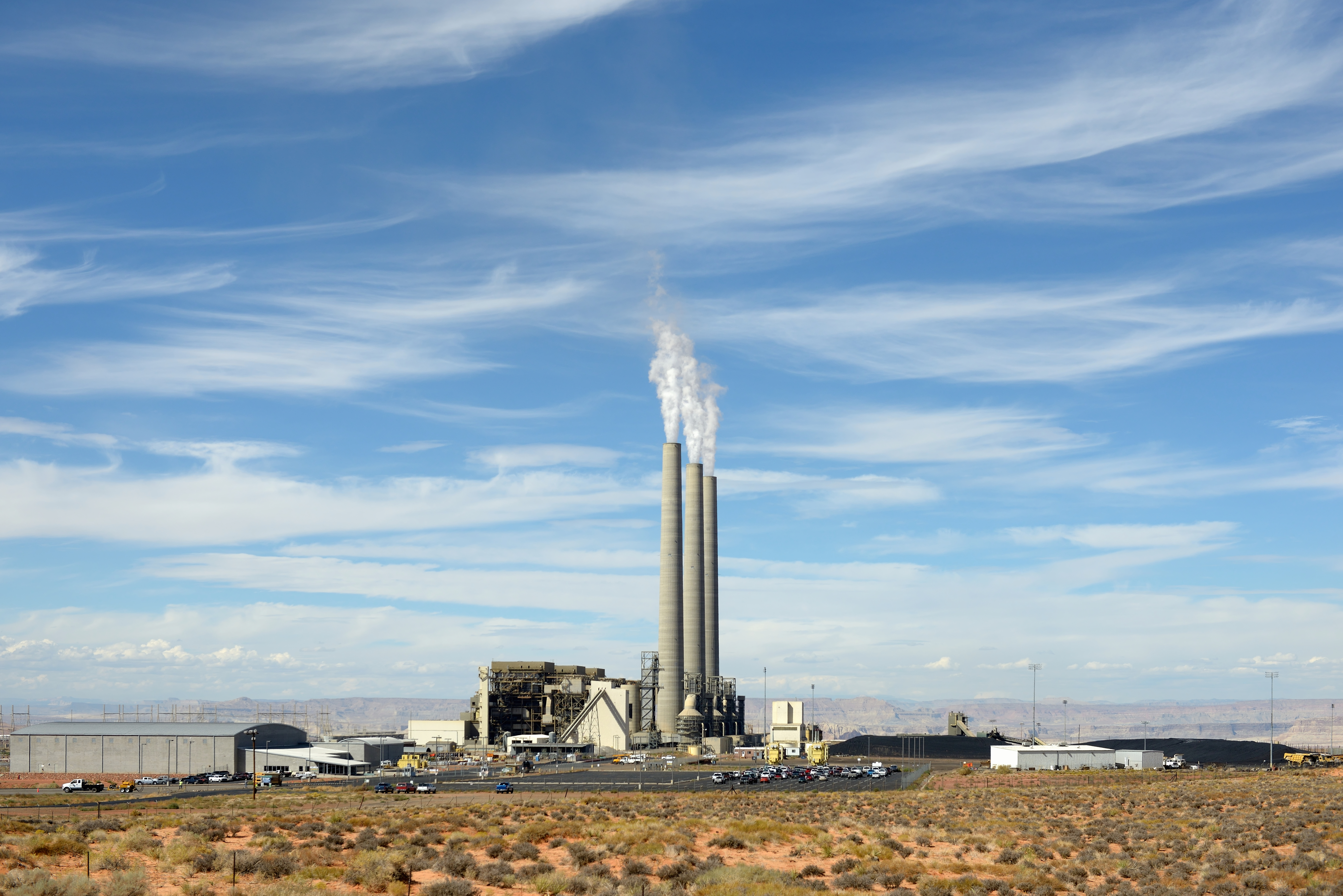 Navajo Generating Station about 4 miles east of Page, Arizona; viewed northwest from SR 98.